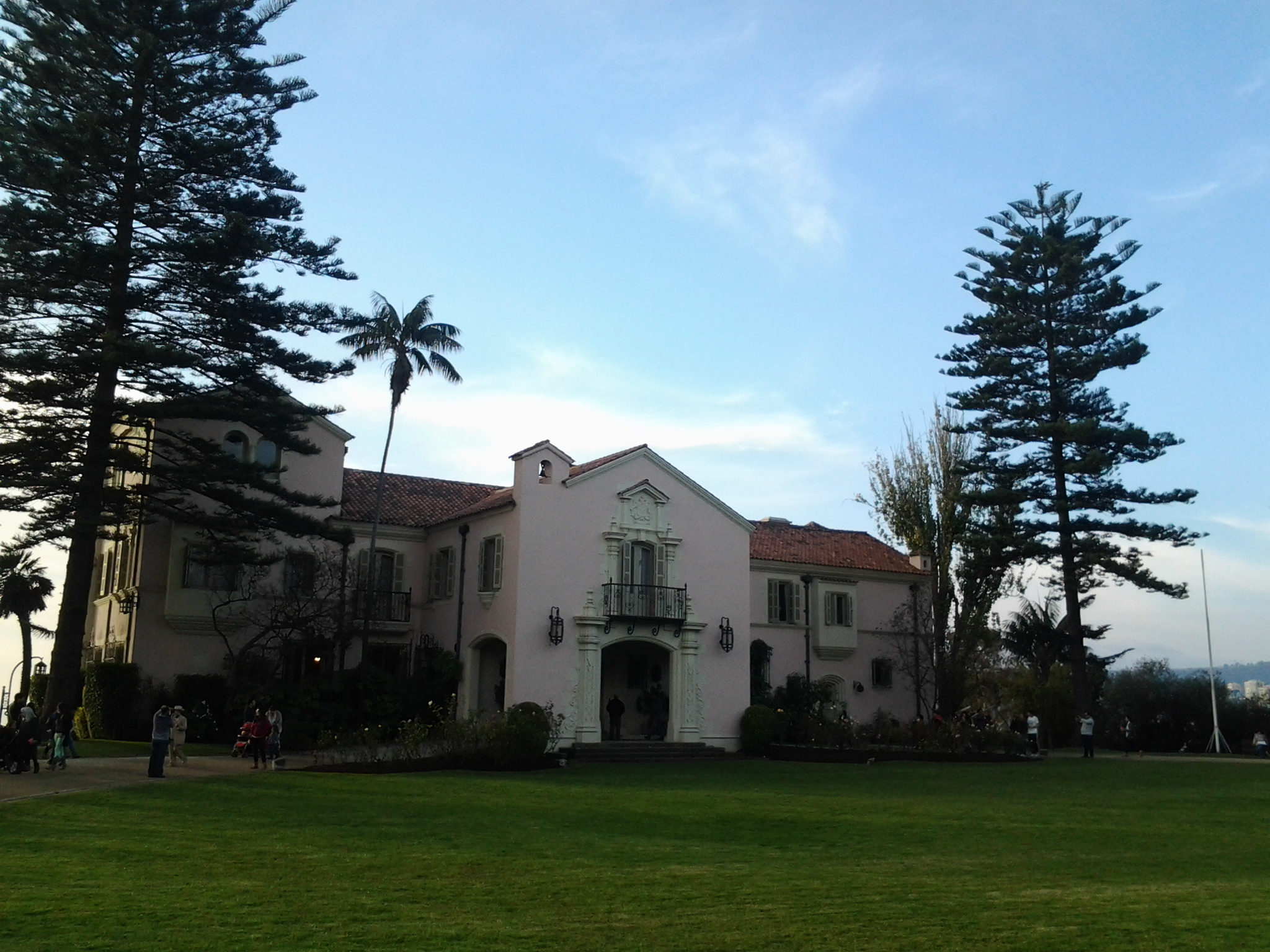 Palacio Presidencial del Cerro Castillo This is a photo of a national monument in Chile: 1009